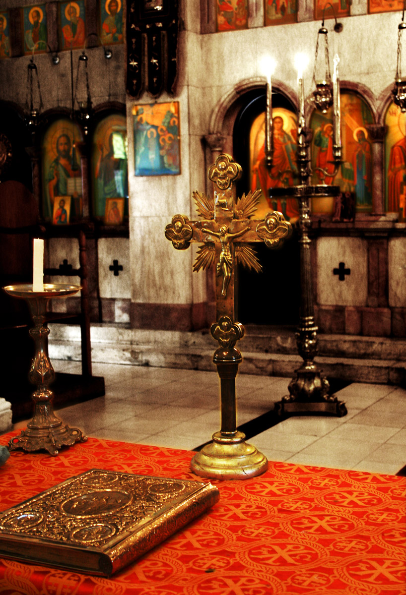 The inside of an Orthodox church. Greek Orthodox Church.